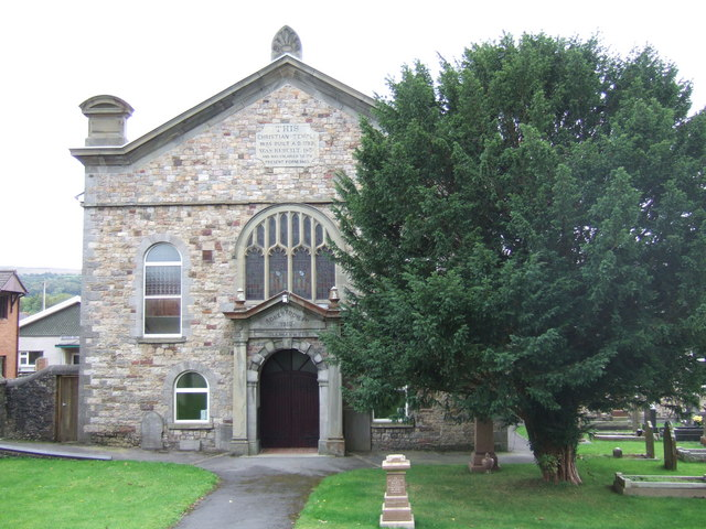 Christian Temple, High Street The oldest of Ammanford's many chapels, it was originally built in 1782 but enlarged and rebuilt twice during the 19th century to accommodate expanding congregations - such was the massive popularity of nonconformist religion at that time. Nearby however a working men's college hosted atheists and freethinkers.